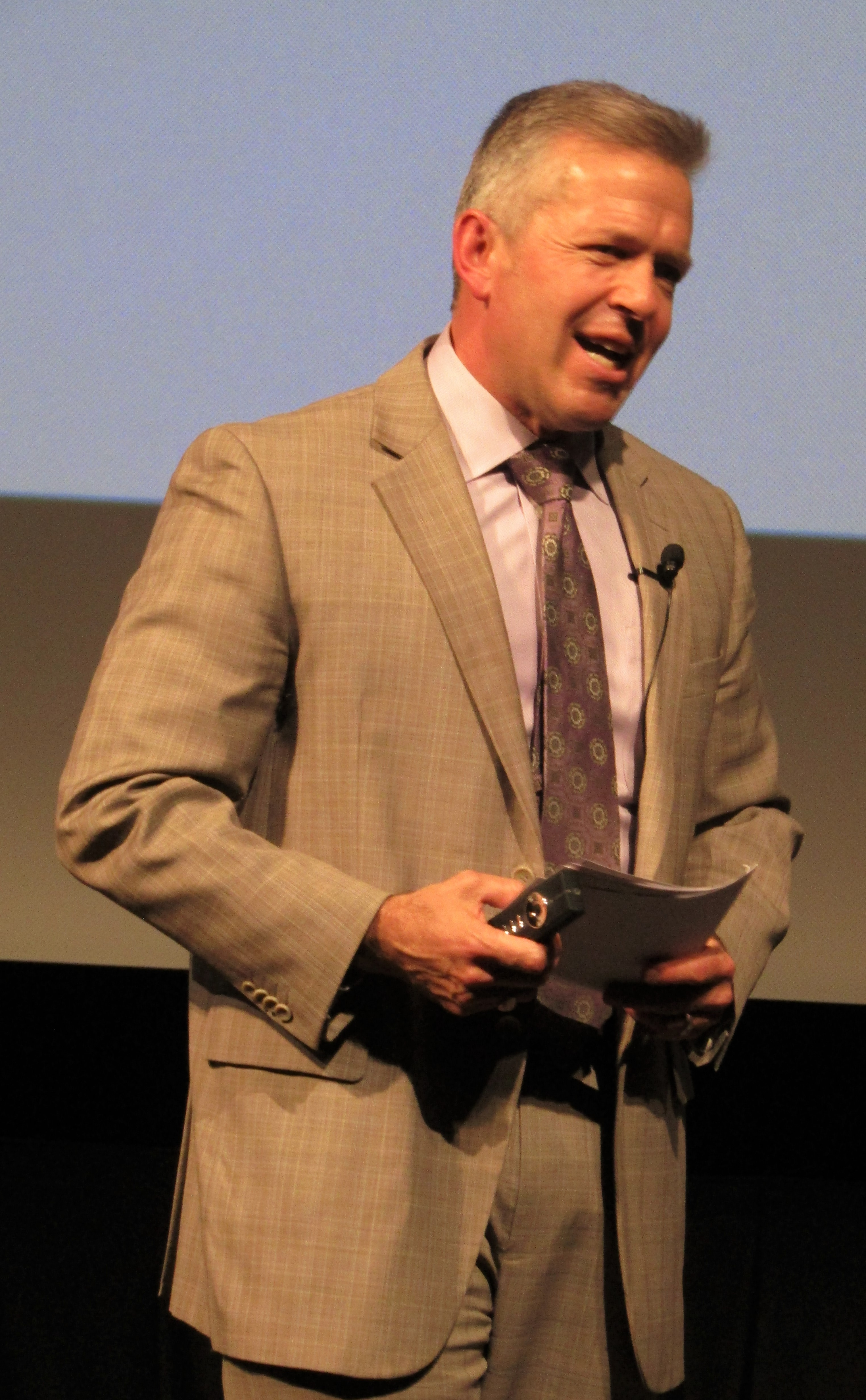 Eric Huntsman speaking at BYU Women's Conference.